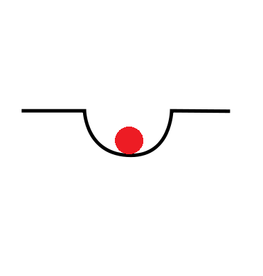 kararlı denge durumu